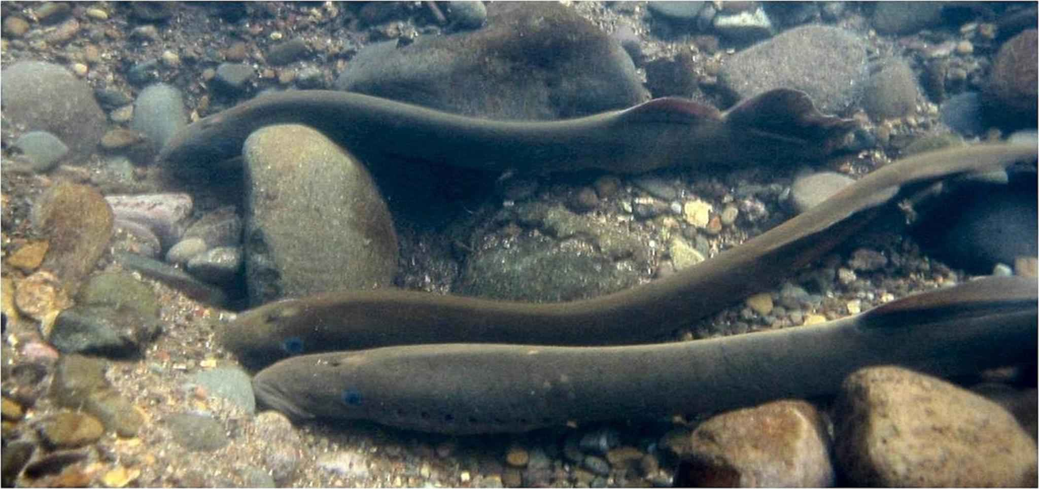 Image title: Adult pacific lamprey Image from Public domain images website